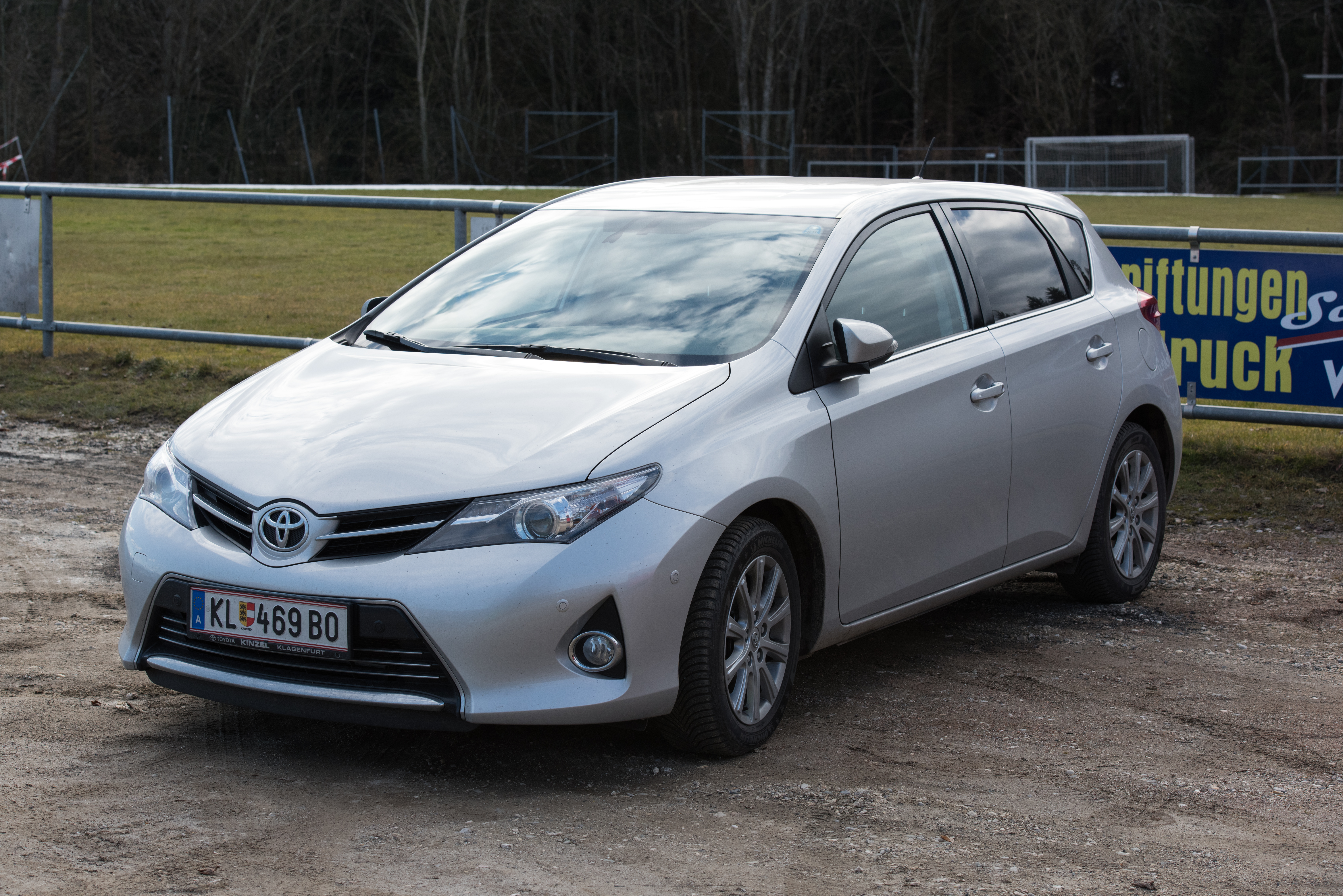 Toyota Auris at Saint Martin, municipality Techelsberg, district Klagenfurt Land, Carinthia, Austria, EU